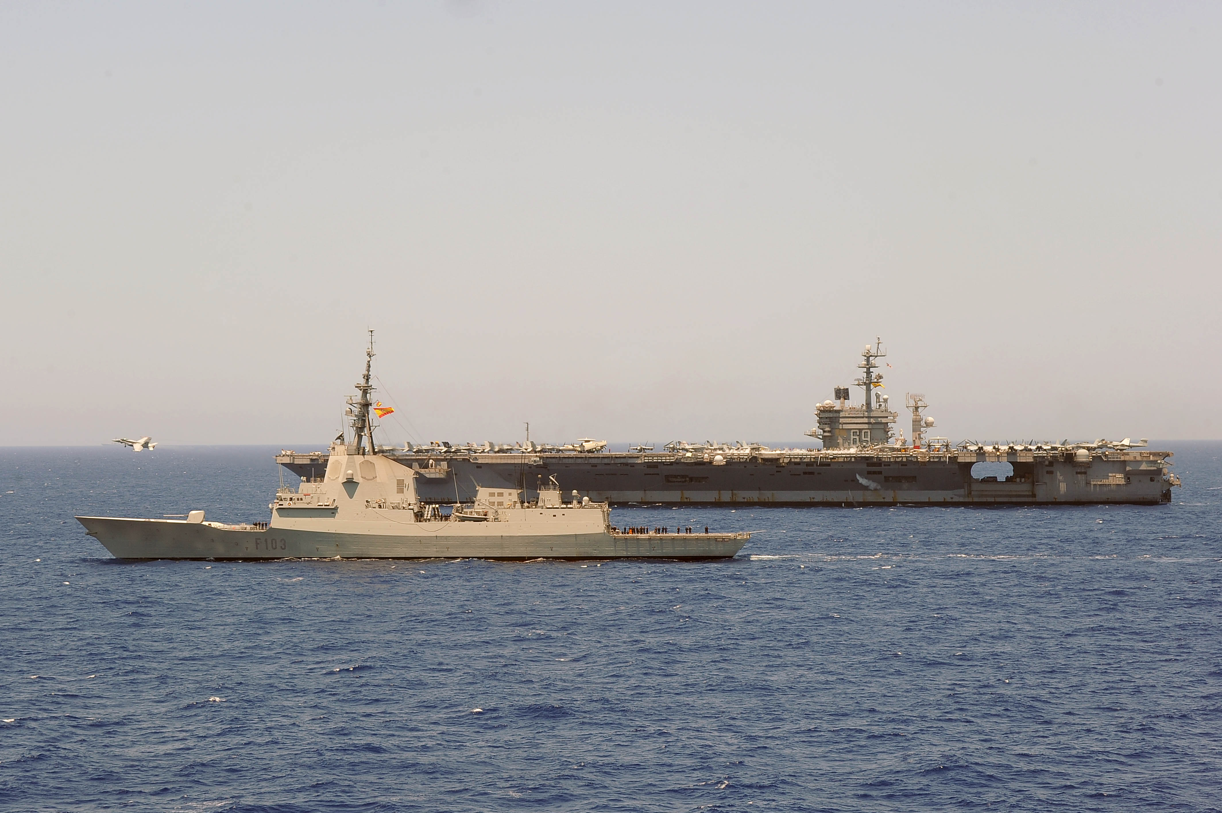 ATLANTIC OCEAN (May 6, 2012) Spanish Navy frigate SPS Blas de Lezo (F 103) is alongside the Nimitz-class aircraft carrier USS Dwight D. Eisenhower (CVN 69) while an F/A-18 Super hornet takes off. Dwight D. Eisenhower, the flagship for Carrier Strike Group 8, is underway conducting a composite training unit exercise in the Atlantic Ocean. (U.S. Navy photo by Mass Communication Specialist 2nd Class Julia A. Casper/Released) 120506-N-RY232-102 Join the conversation navylive.dodlive.mil